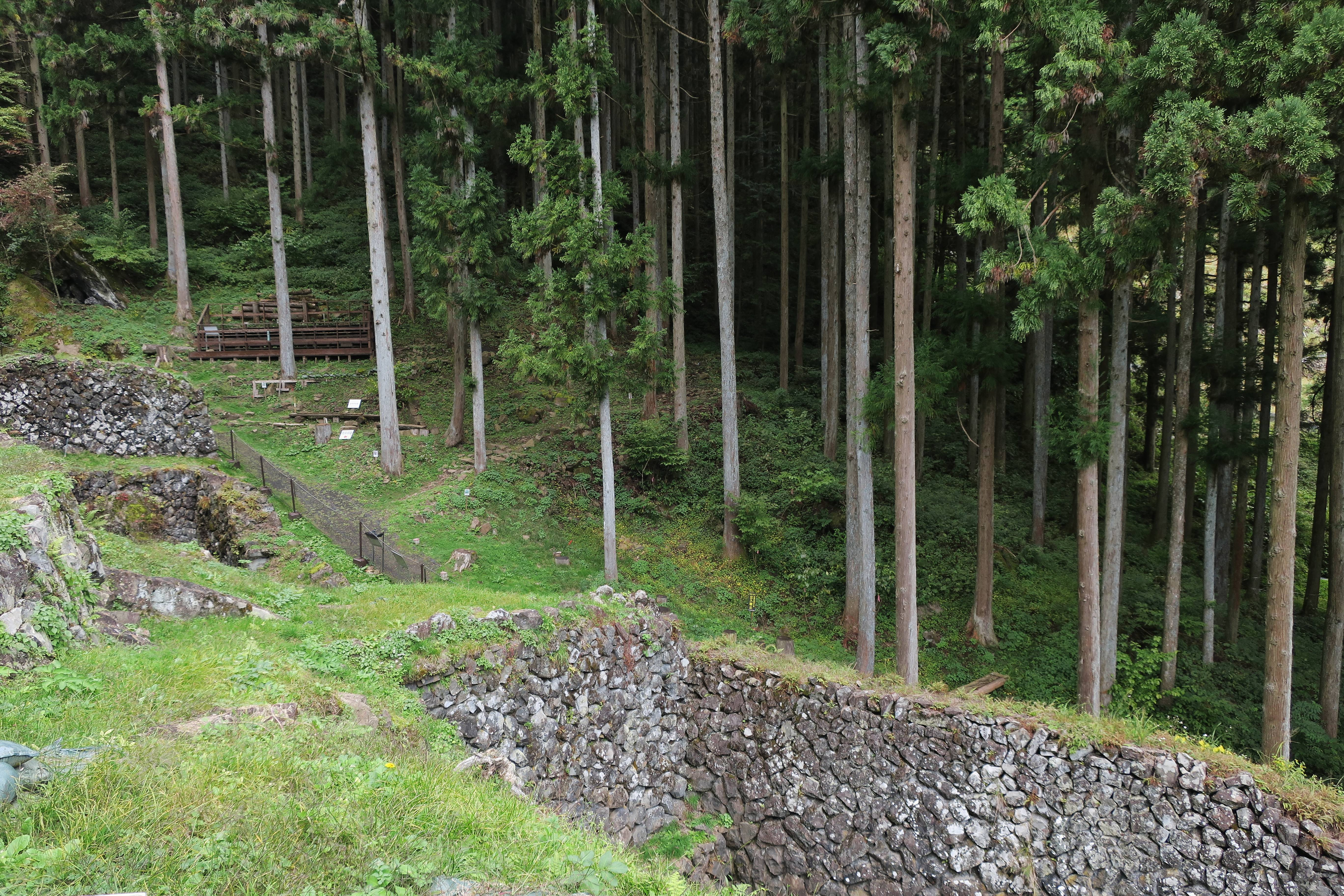 Arafune Cold Storage.